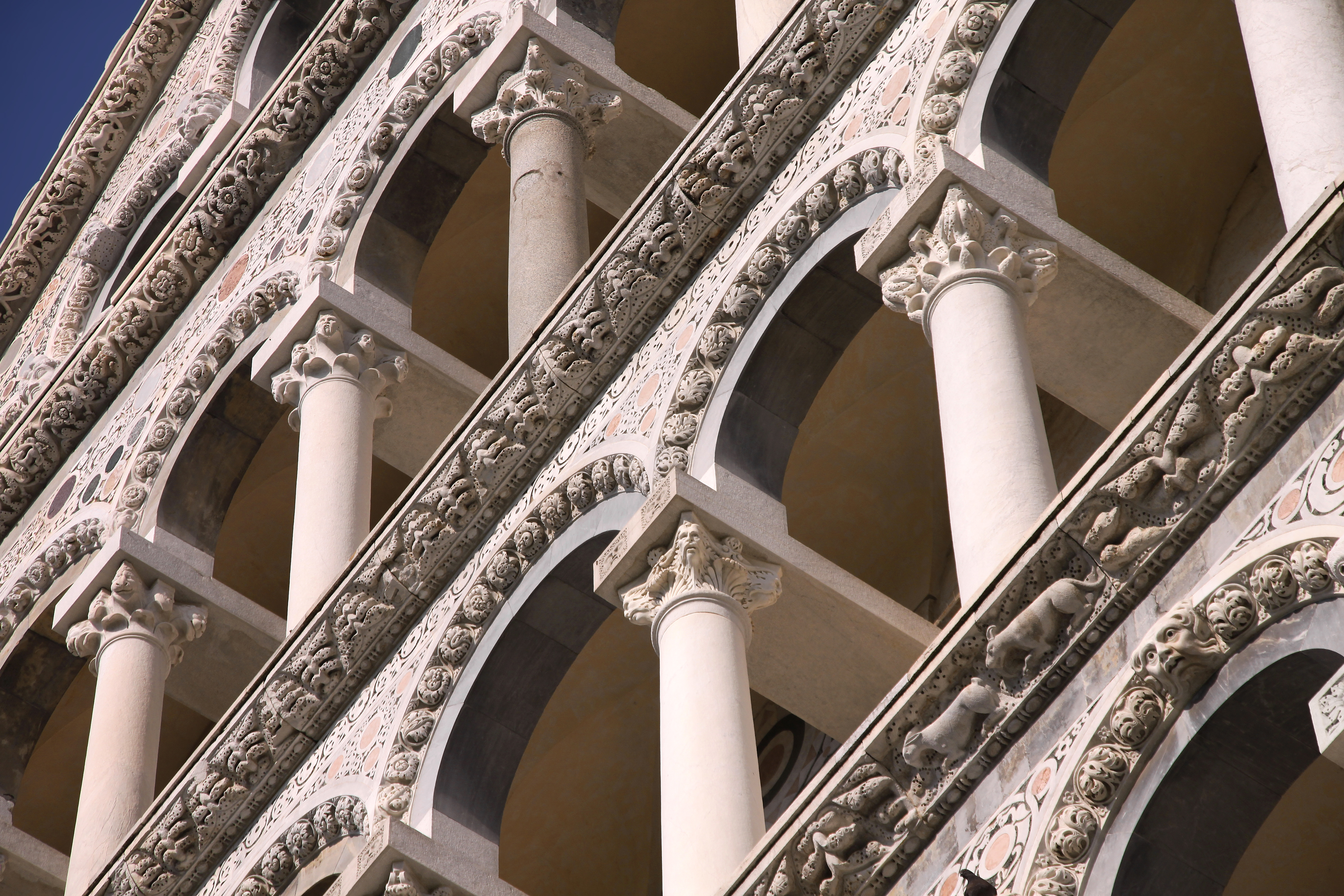 Detail of the façade (facade) of the Duomo Santa Maria Cathedral in Pisa (Italy).